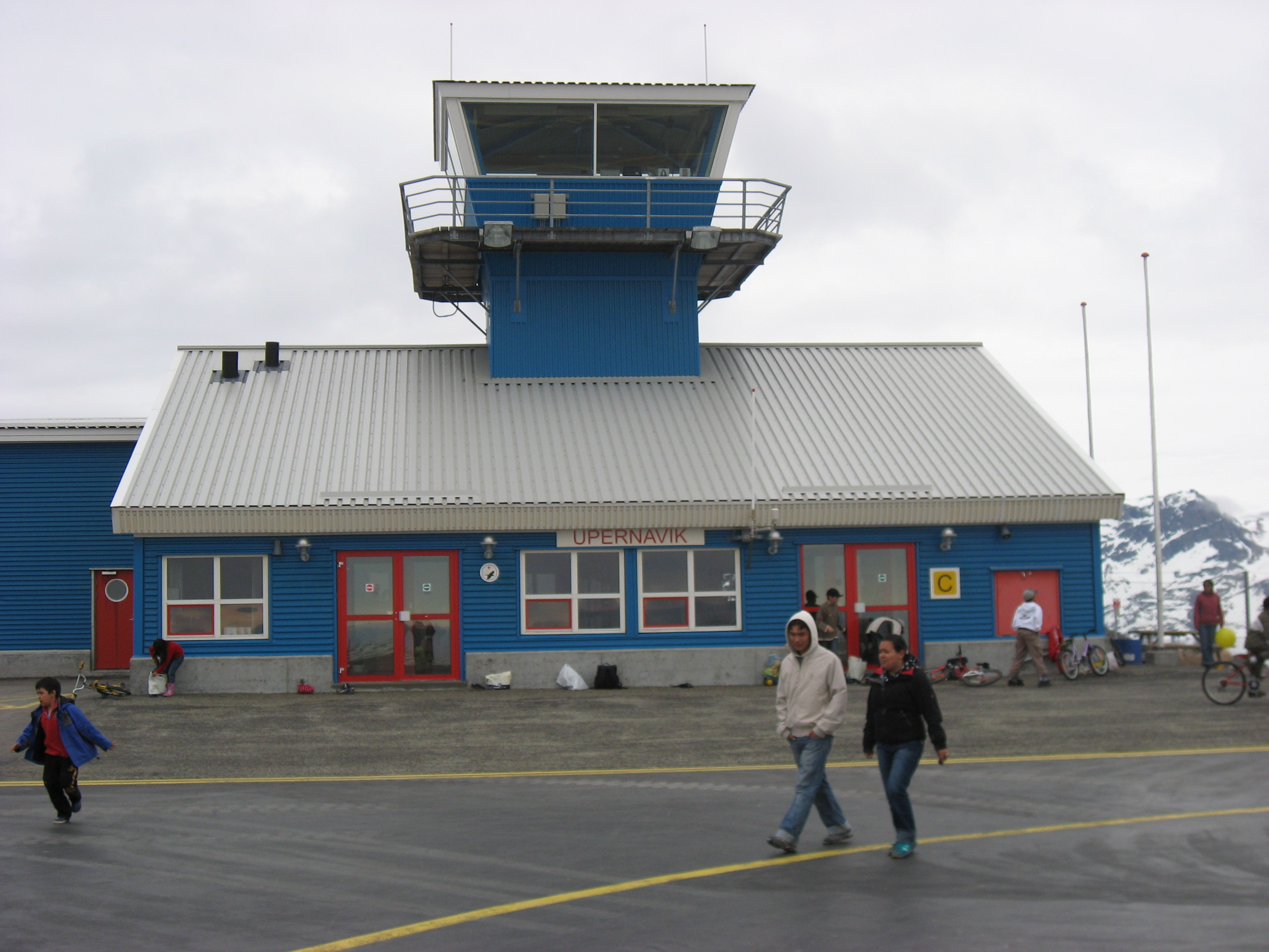 Upernavik Airport. In 2007 the airport was regularly open one day a week for the public in the evening for an evening stroll or jog on the runway, from which there is an excellent view.